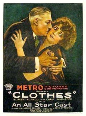 Poster for the 1920 motion picture Clothes